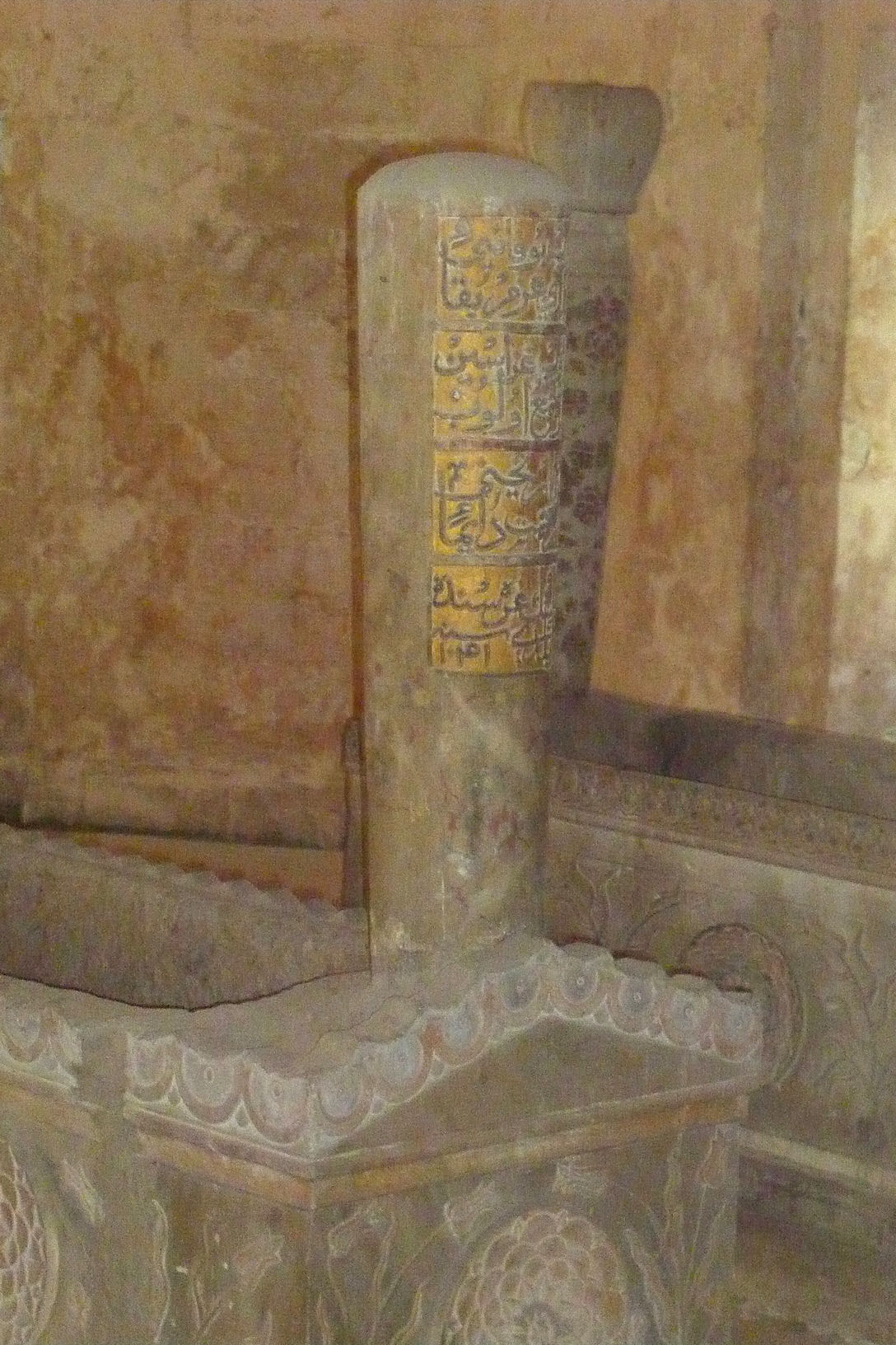 Khans cemetery in Bakhchisaray Palace